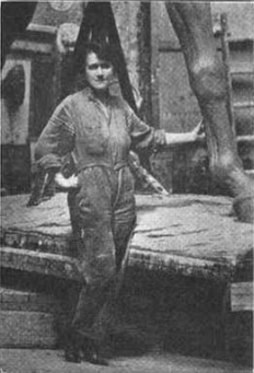 Sally James Farnham, from a 1921 publication.